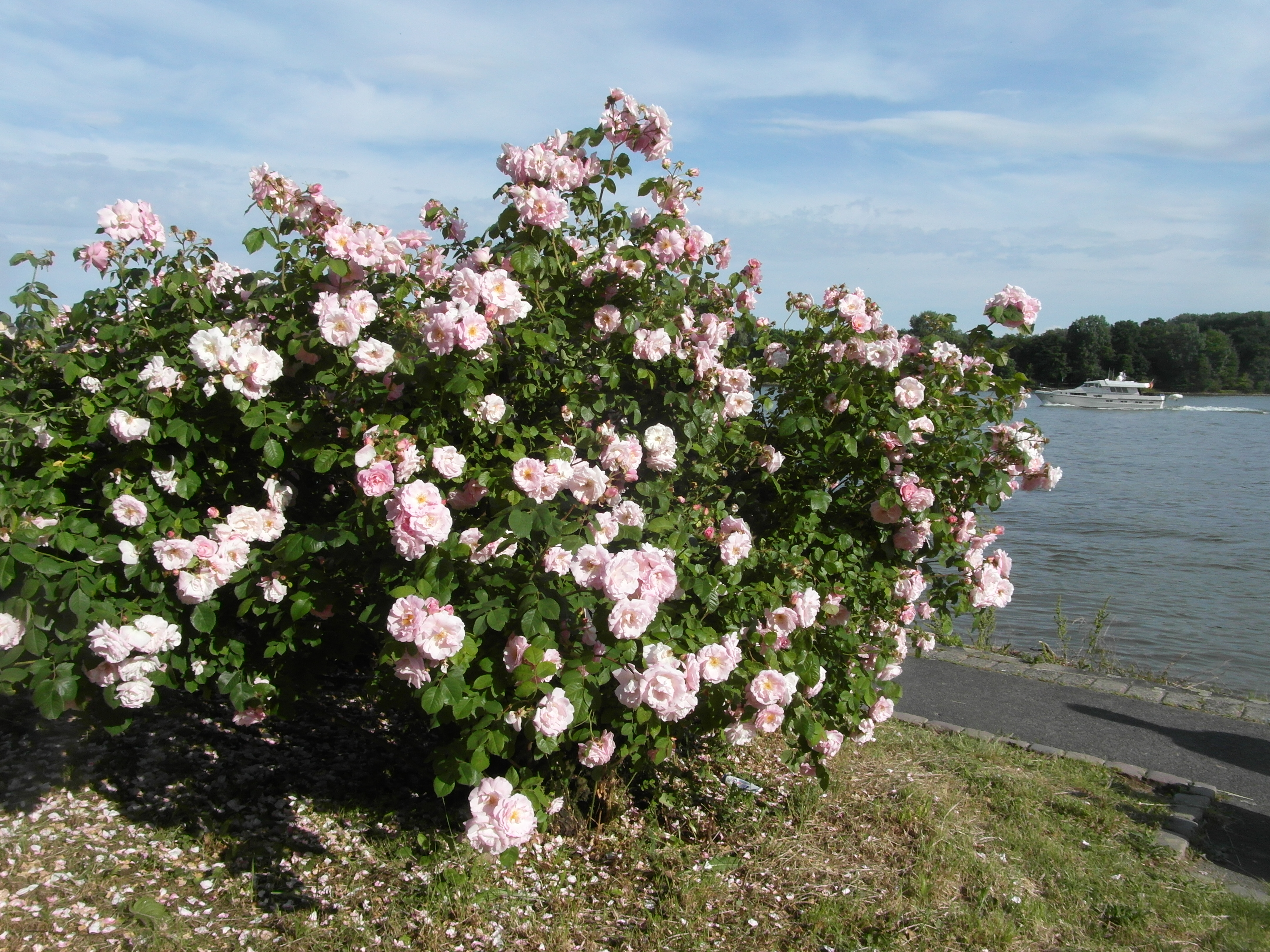 In the "Rosenstadt" Eltville, roses are grown on the banks of the river Rhine.